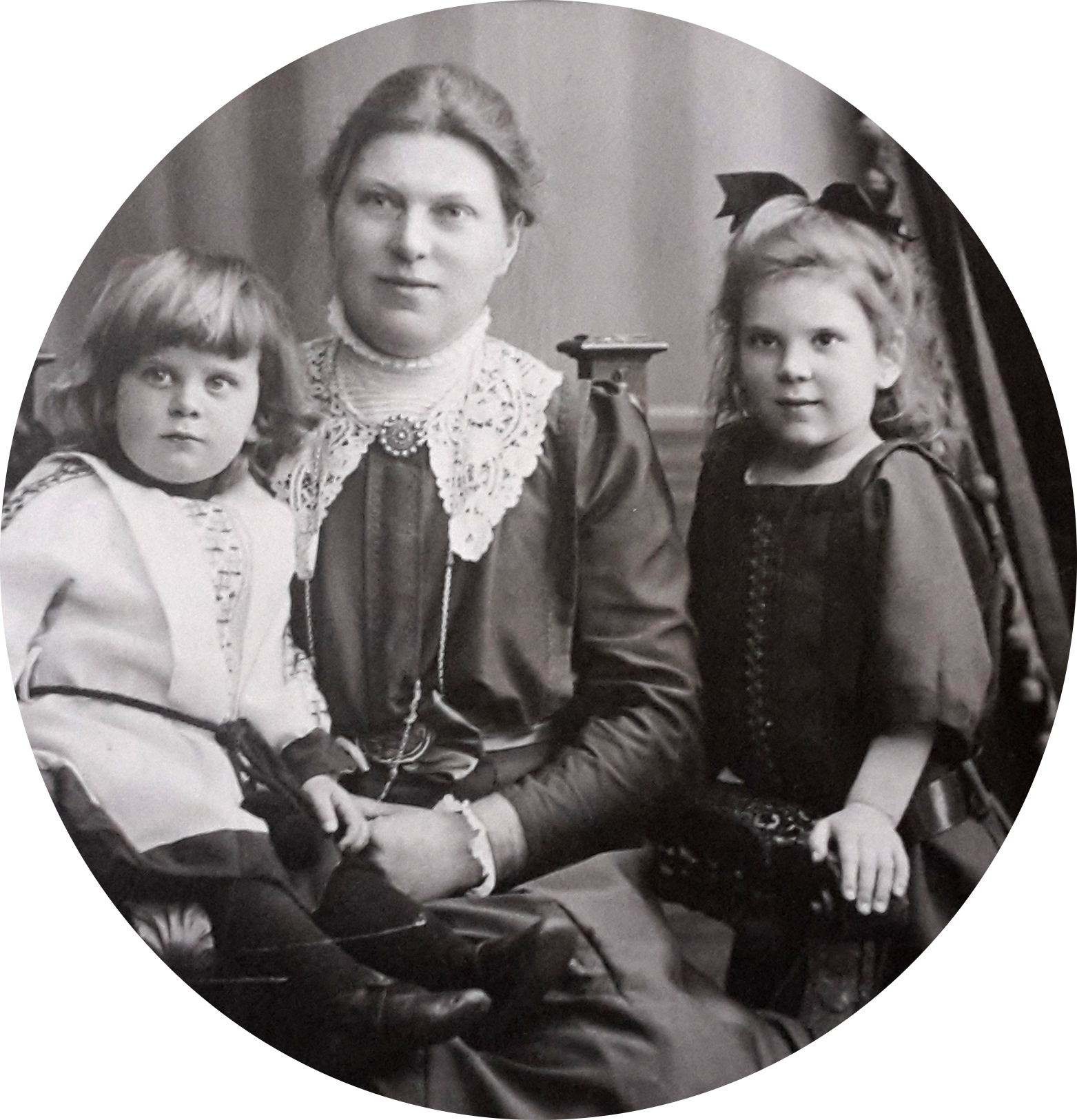 Luitgard Himmelheber, (* 27. April 1874; † 01. March 1959) with her two youngest children Dorle and Hans Himmelheber circ. 1910.